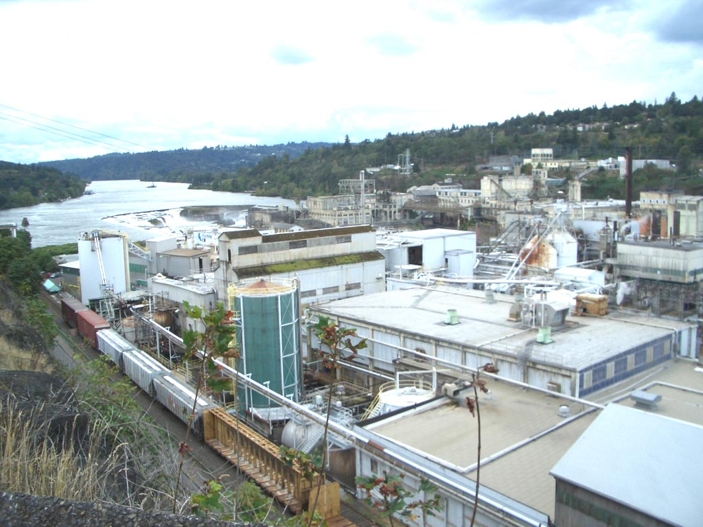 Mike Chapman